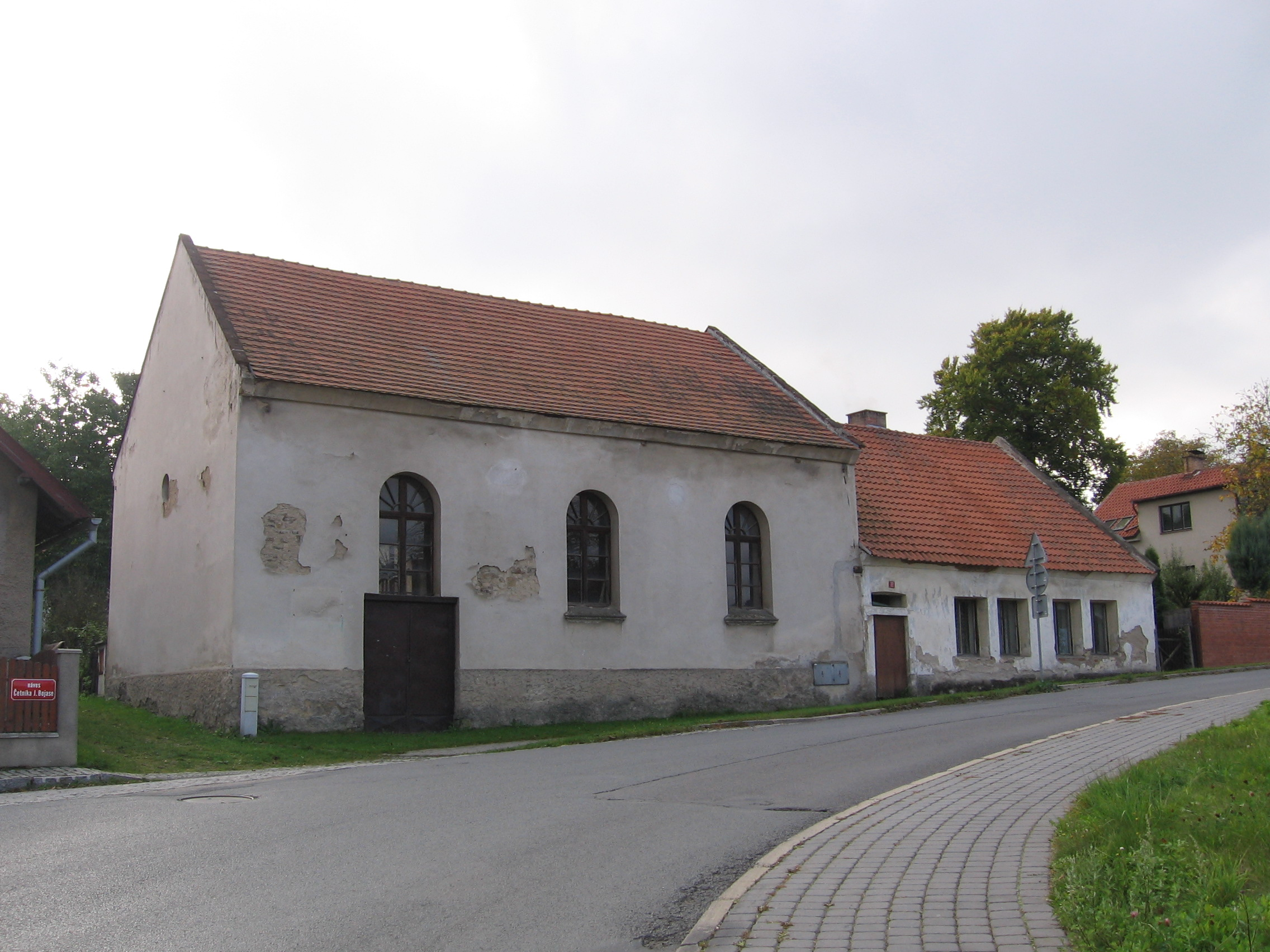 Former synagogue and rabbi house in Strančice